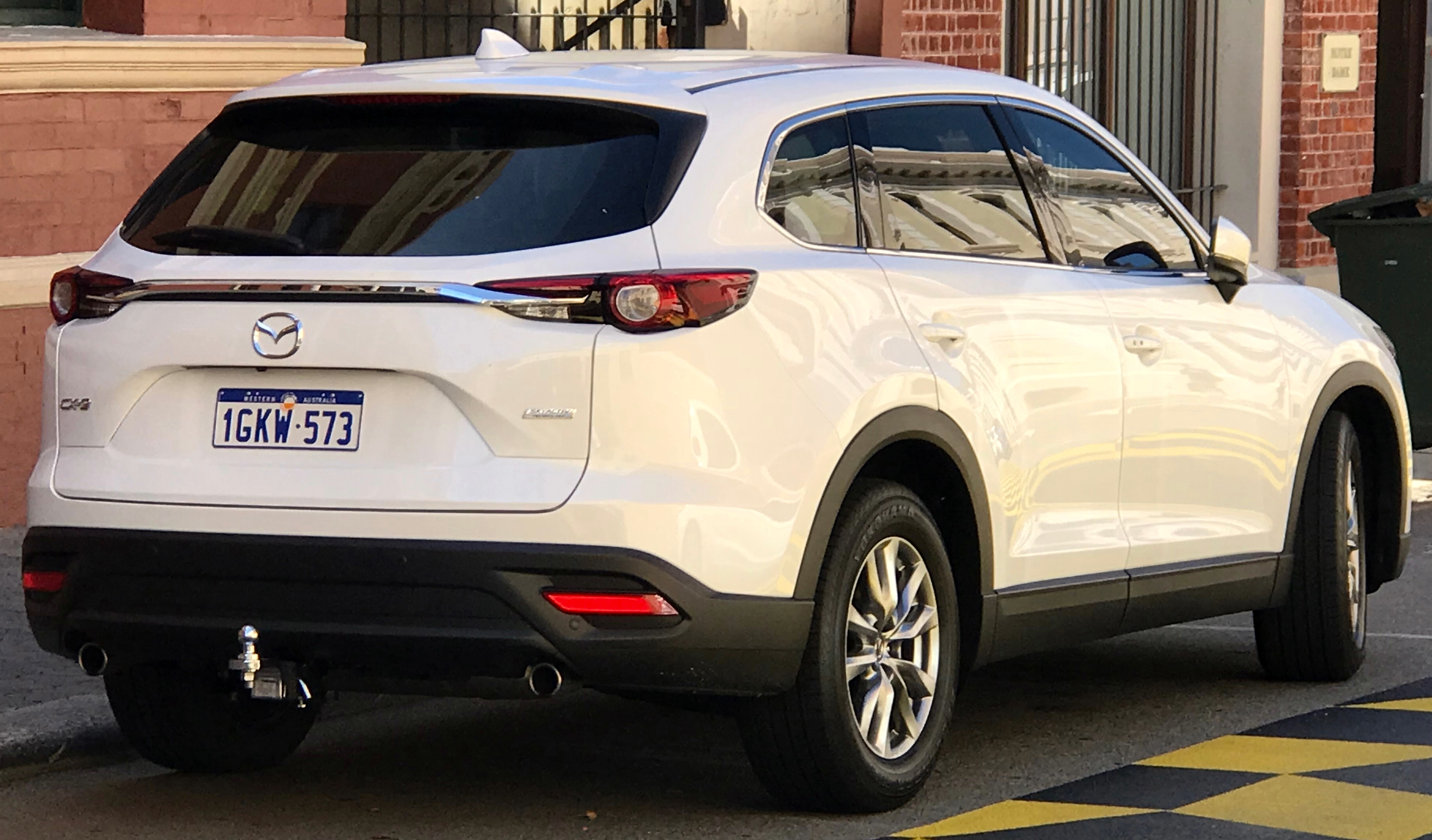 2017 Mazda CX-9 (TC) Touring wagon. Photographed in Fremantle, Western Australia, Australia.